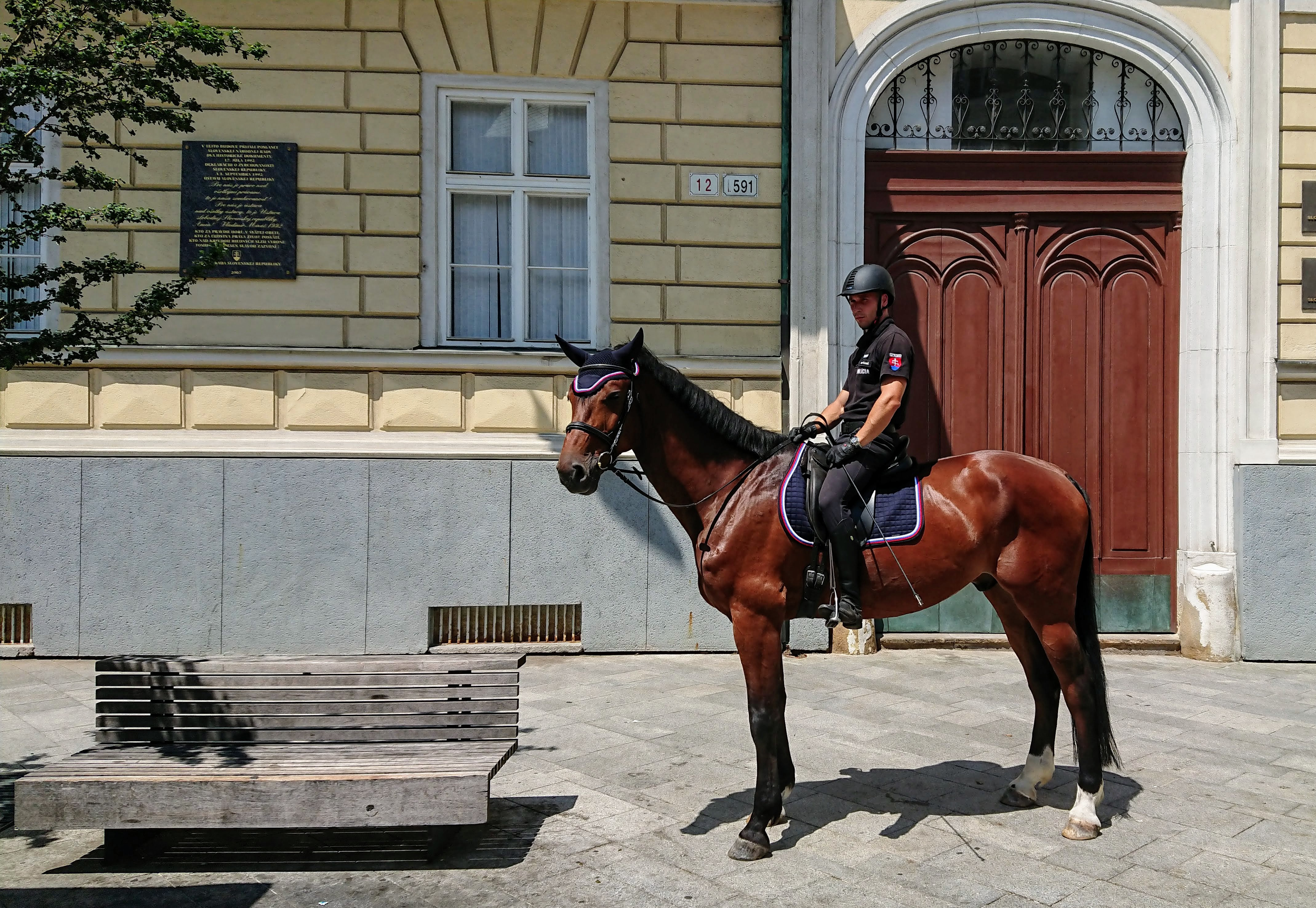 Mounted Police at Hurban Square (Hurbanovo námestie) in Bratislava, Slovakia